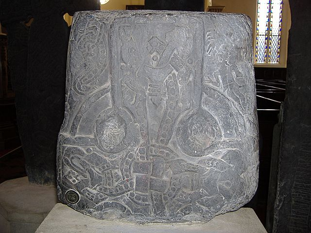 Cross Slab, Kirk Michael, Isle of Man The top half of an intricately carved Cross Slab, to be found amongst an impressive collection inside St Michael and All Angels church. Number 129 in this...